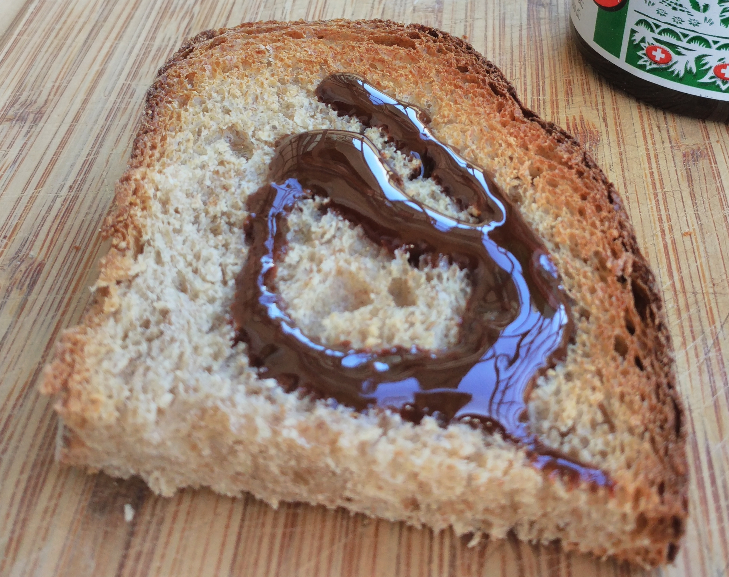 cenovis paste on bread, jar in the background